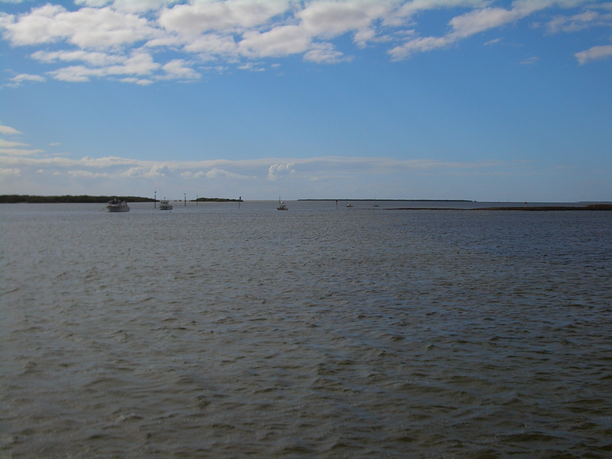 The Port Broughton harbor (part of Spencer Gulf), seen from the jetty in the port.